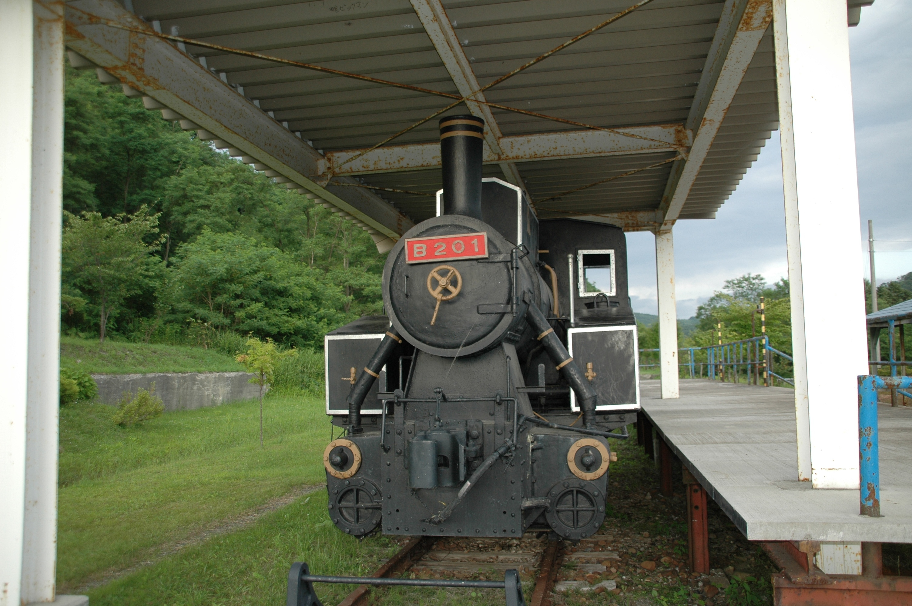 JNR B20type No1 Steam Locomotive, Asahi Station (Manji Line), Hokkaido, Japan.